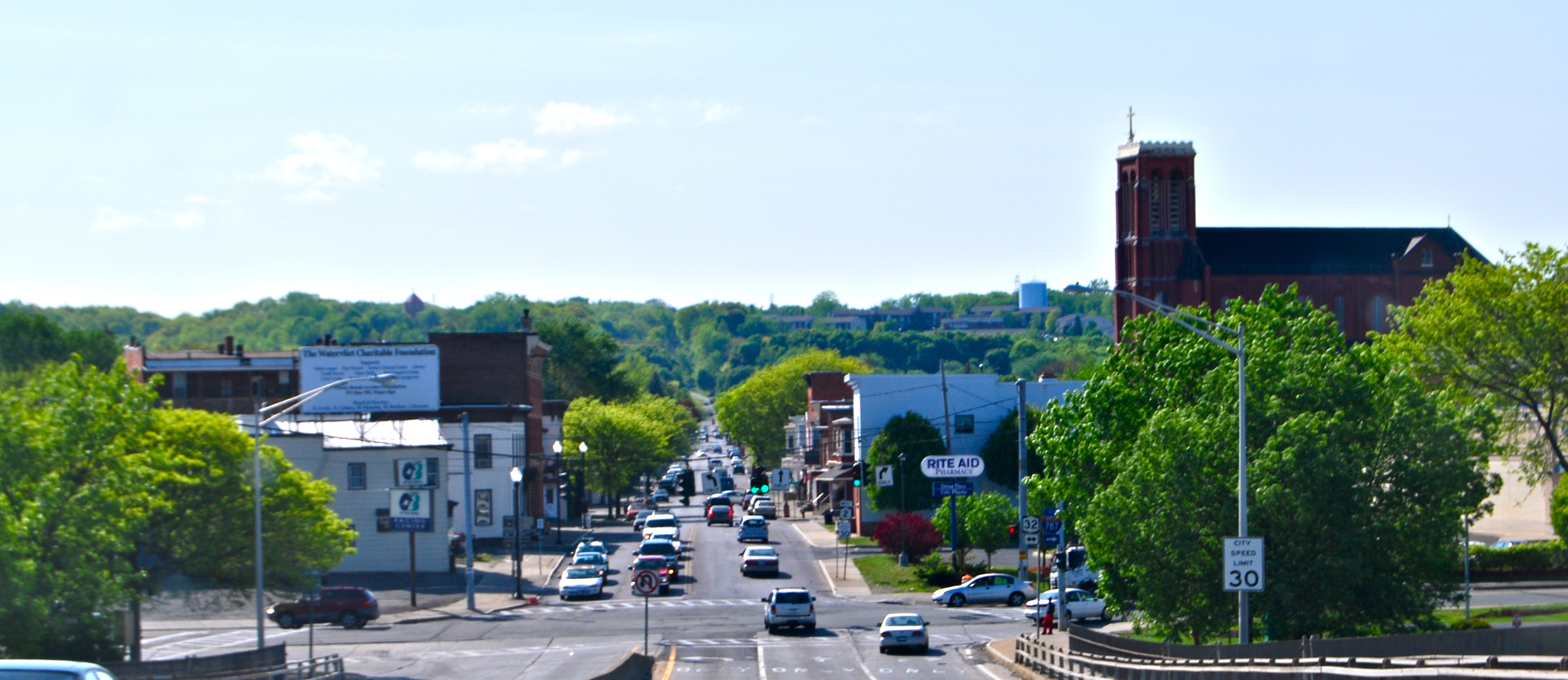 View of Watervliet, New York, United States, from the Congress Street Bridge (New York State Route 2) This photo includes St. Patrick's Church (on the right hand side) which was leveled in May 2013.